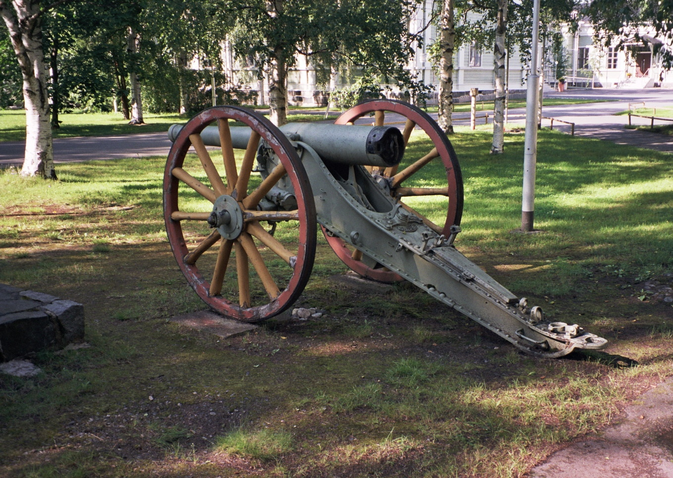 An old field gun at the old barracks area of Oulu in Intiö, Oulu, Finland. It is probably a French-made 90 mm de Bange cannon, model 1877.